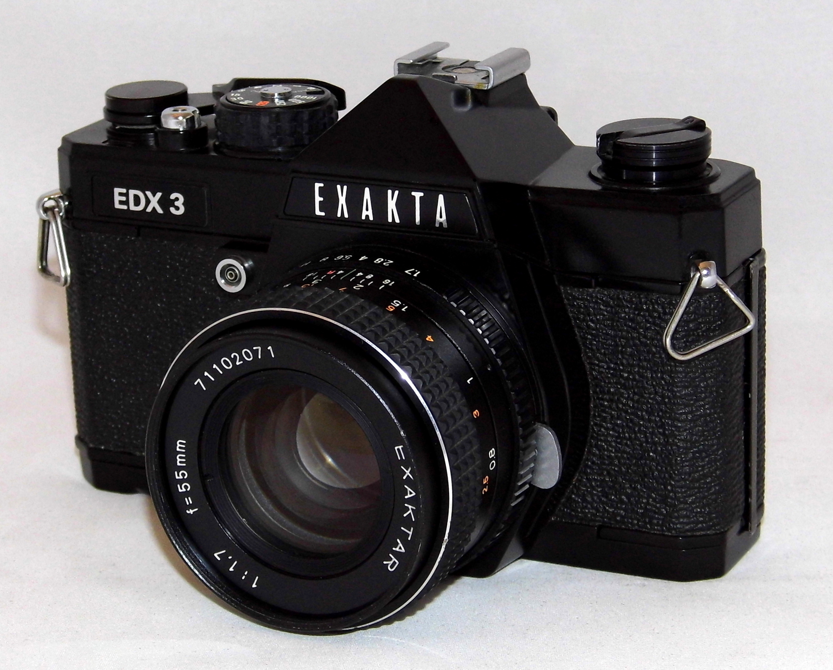 Auction Item 142 - To be auctioned by Cledis Estes Auctions II in Medina, Ohio.